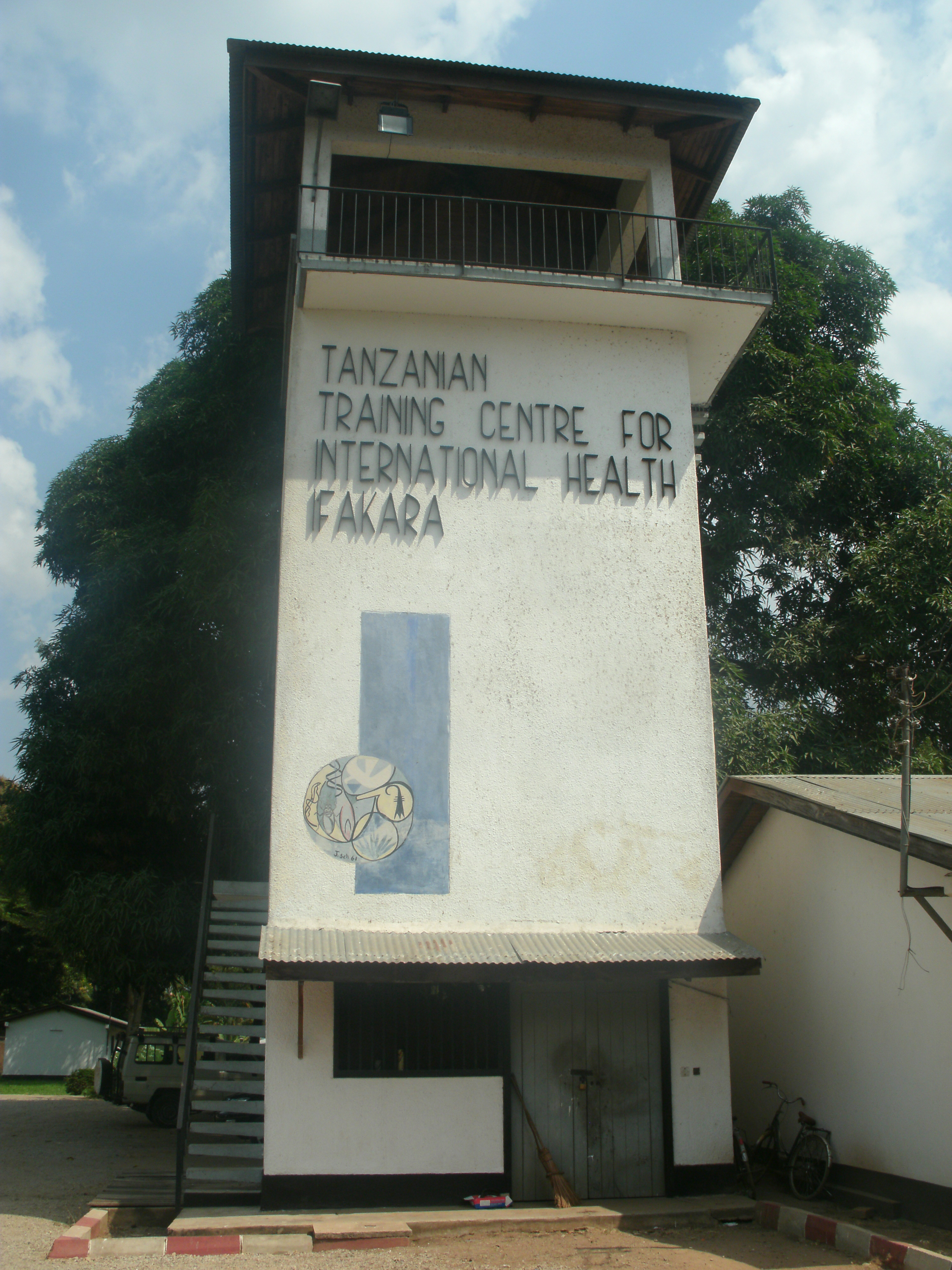 Tower with sign that reads, "Tanzanian Training Centre for International Health Ifakara" This tower is located at the Ifakara Health Institute in Ifakara, Tanzania.